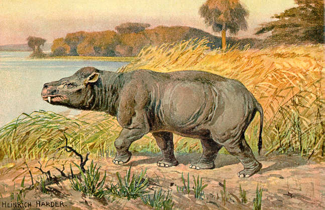 Coryphodon